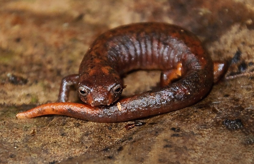 Bolitoglossa pandi